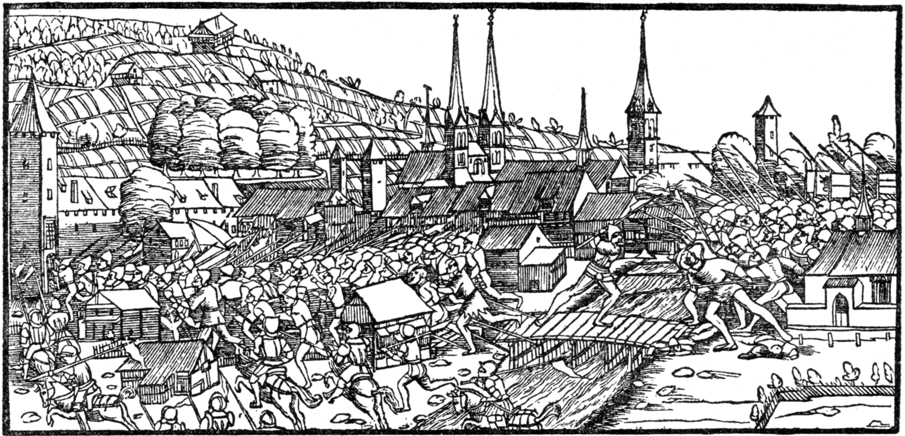 Battle of St. Jakob during the Old Zurich War. Woodcut from the cronicle of Stumpf 1548